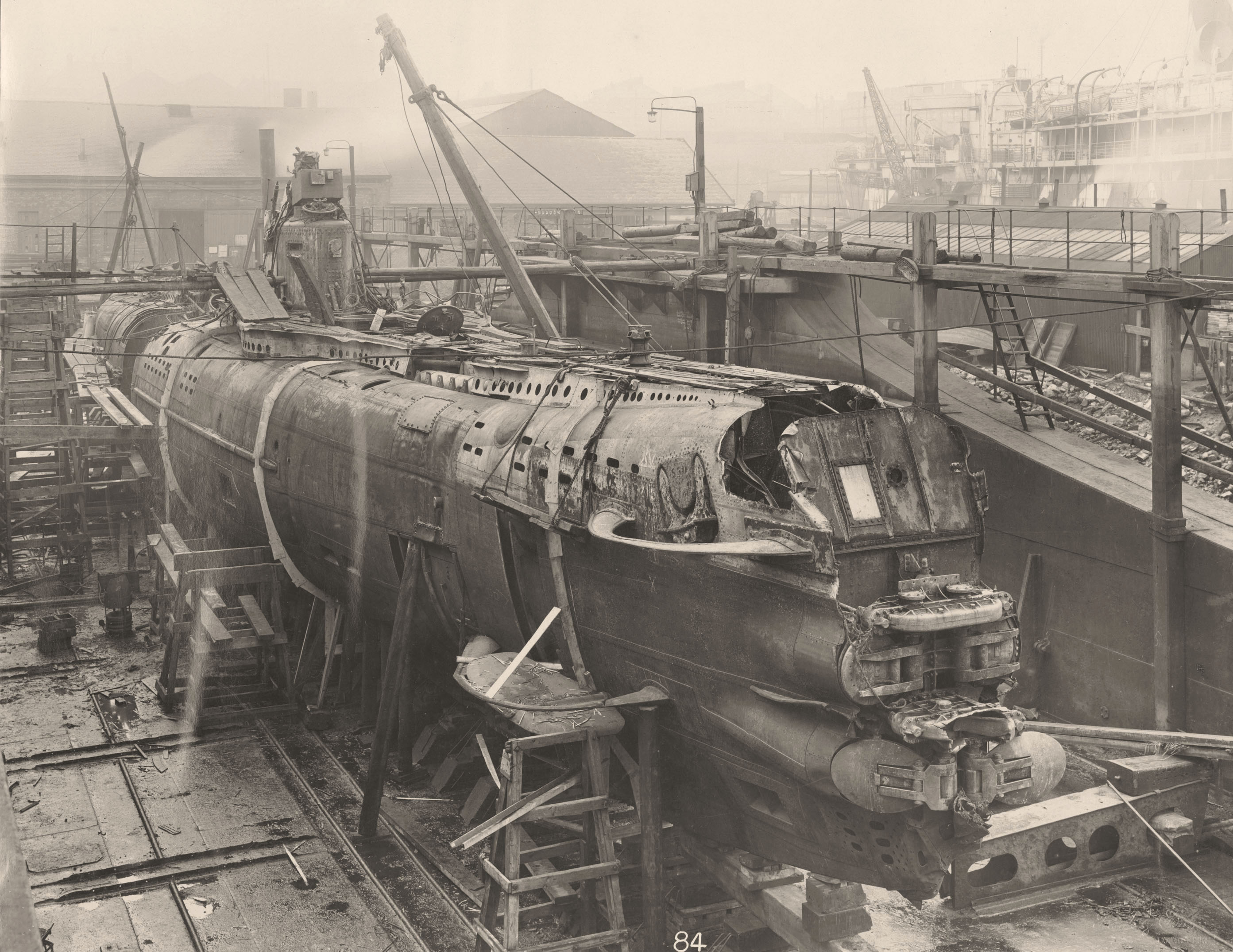 This photograph shows the U-Boat 110, a German Submarine that was sunk and risen in 1918. This photograph shows the a general view of the Submarine. Reference: DS.SWH/5/3/2/14/1/84 This image is taken from an album of photographs found in the Swan Hunter shipbuilders collection at Tyne & Wear Archives. The album is from 1918 and documents the U.B. 110 before she was scrapped on the dry docks of Swan Hunter Wigham Richardson Ltd, Wallsend. The twin-screw German submarine U.B. 110 was built by Blohm & Voss, Hamburg. On the 19th July 1918, when attacking a convoy of merchant ships near Hartlepool, she herself was attacked by H.M. Motor-Launch No. 263 and suffered from depth charges. Coming to the surface she was rammed by H.M.S. Garry, a torpedo boat destroyer, and sunk. In September she was salvaged and placed in the admiralty dock off Jarrow slake. She was then berthed at Swan Hunter's dry docks department with an order to restore her as a fighting unit. The Armistice on 11th November 1918 caused work on her to be stopped. She was towed on the 19th December 1918 from Wallsend to the Northumberland Dock at Howdon and was subsequently sold as scrap. The album of photographs, taken by Frank & Sons of South Shields, documents the U.B. 110 in extensive detail. The photographs provide a rare glimpse into the mechanics and atmosphere of the raised German submarine. // (Copyright) We're happy for you to share these digital images within the spirit of The Commons. Please cite 'Tyne & Wear Archives & Museums' when reusing. Certain restrictions on high quality reproductions and commercial use of the original physical version apply though; if you're unsure please